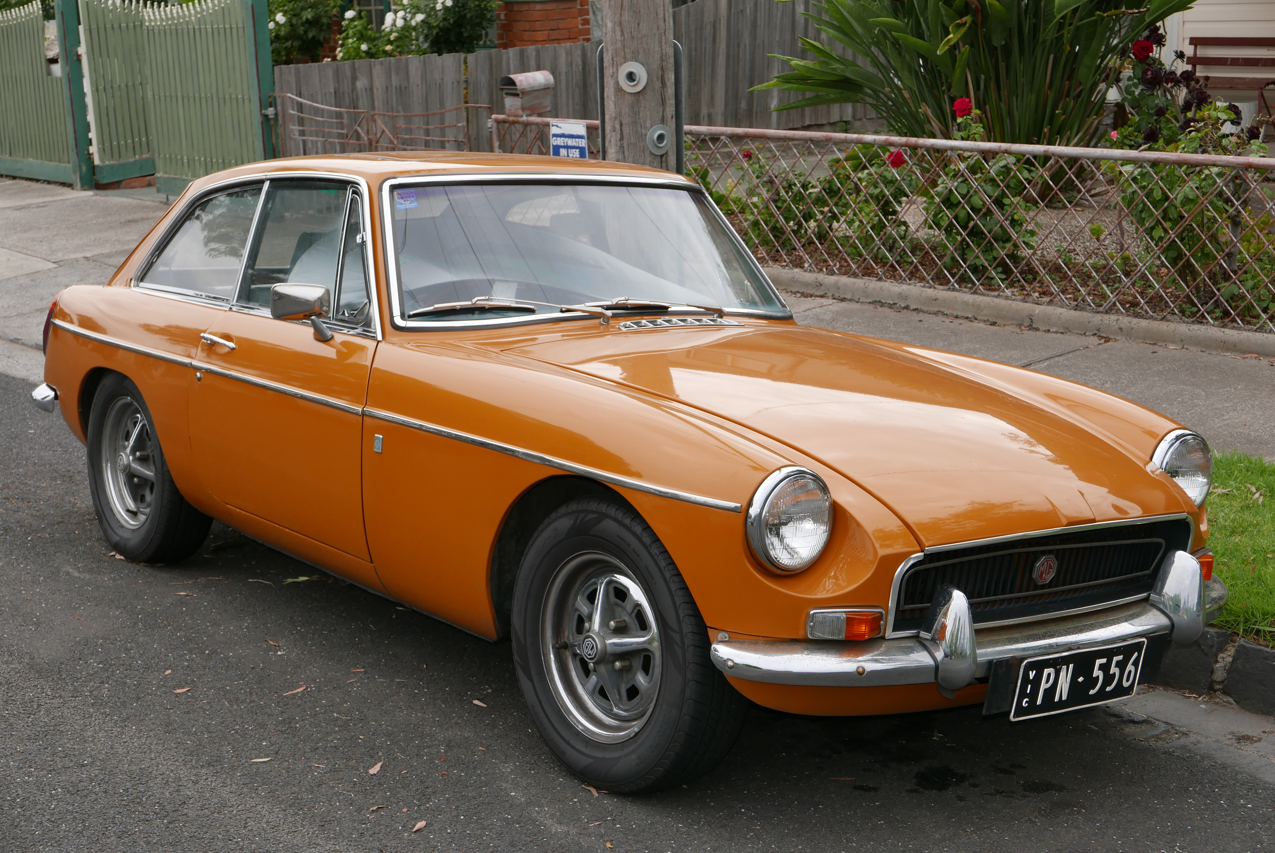 1969 MG B GT hatchback. Photographed in Coburg, Victoria, Australia. Vehicle registration enquiry results Jurisdiction Victoria Registration PN556 Chassis code Not available Engine code 18GGWEH7328 Compliance date Not available Year of manufacture 1969